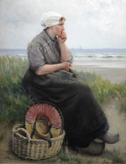 Girl with a blanket on the beach